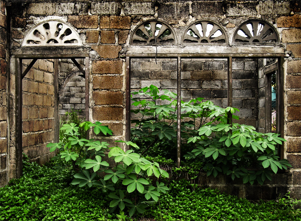 House Invasion